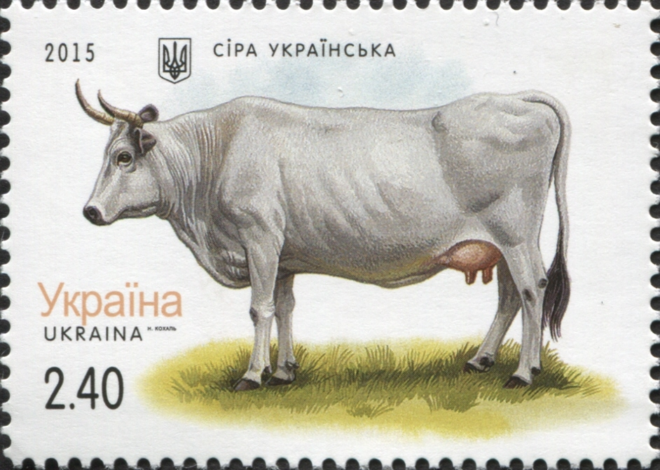 Stamps of Ukraine, 2015